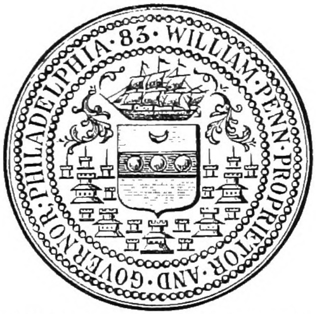 "William Penn Proprietor and Governor Philadelphia 83" Seal of Philadelphia County, adopted by the General Assembly in Philadelphia on April 2, 1683. From History of Delaware, 1609-1888, Vol. 1, Ch. IX, Delaware Under William Penn (Pg. 87), by John Thomas Scharf, Published by L. J. Richards & Co., 1888, Philadelphia